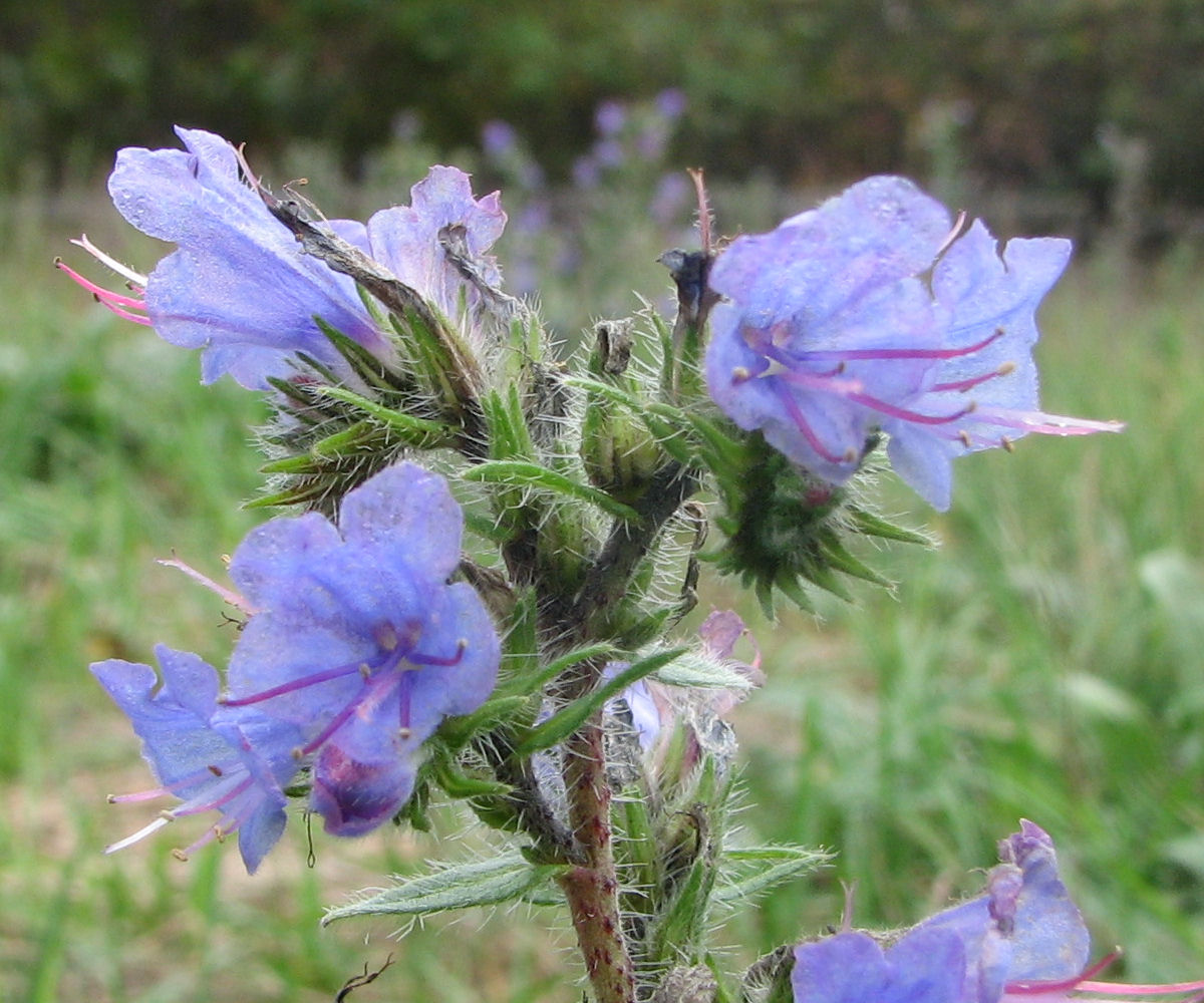 Viper's Bugloss or Blueweed (Echium vulgare), closeup of flowers, Ottawa, Ontario, Canada